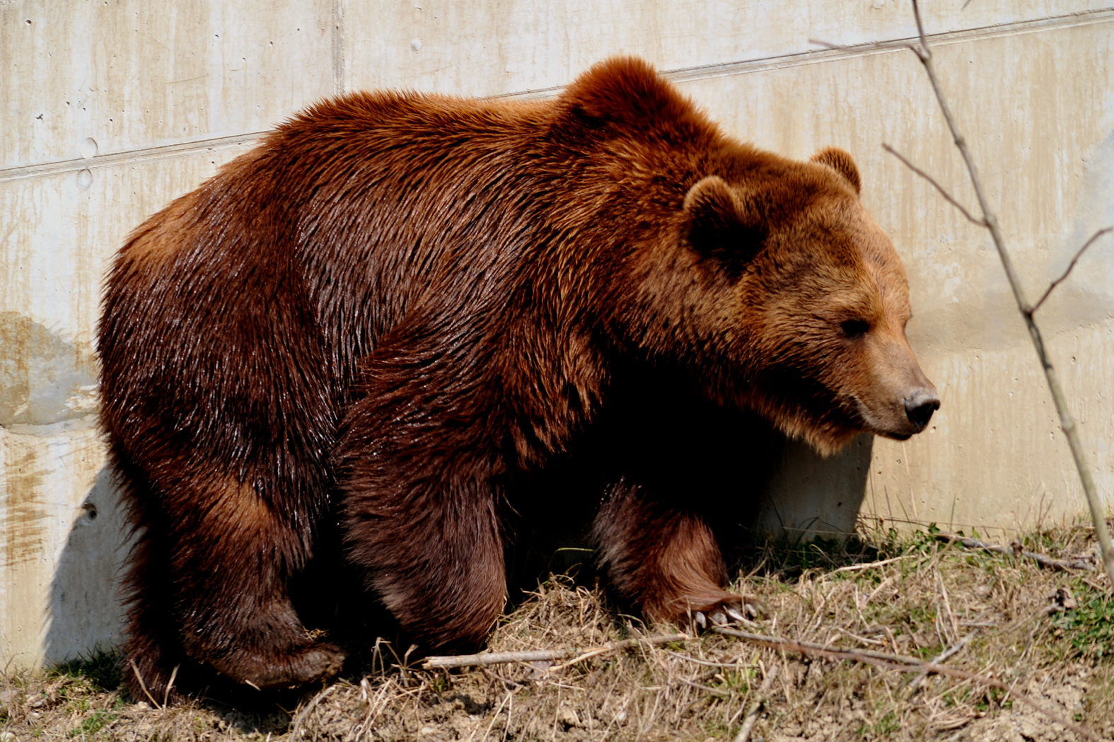 Bear Finn in the bearpark; Berne, Switzerland.